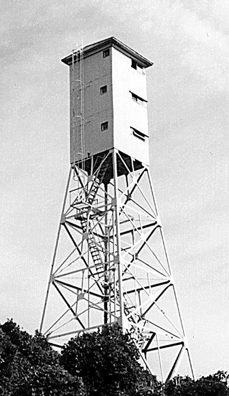 This fire control tower was constructed early in WW2 and is an example of a steel tower that housed multiple base end stations in its cemesto board upper structure. Photo courtesy of the Coast Defense Study Group, McLean, VA, from their collection.